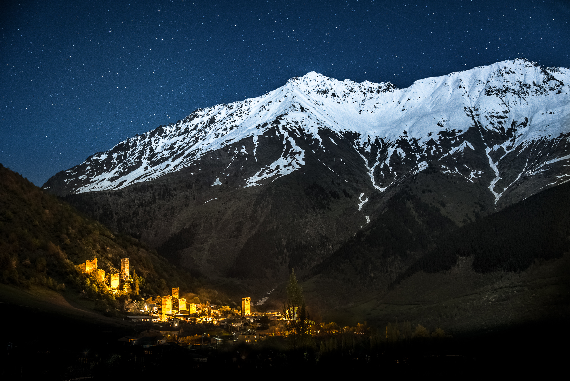 Highland townlet Mestia (1,500 m) at night in Svaneti region of Georgia